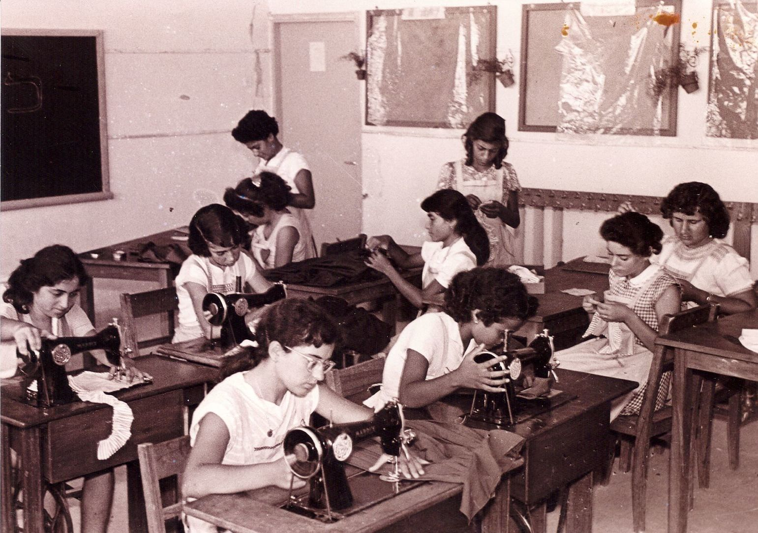 Sewing lesson 60 years before